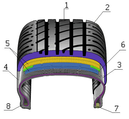 Tyre Cross-Section